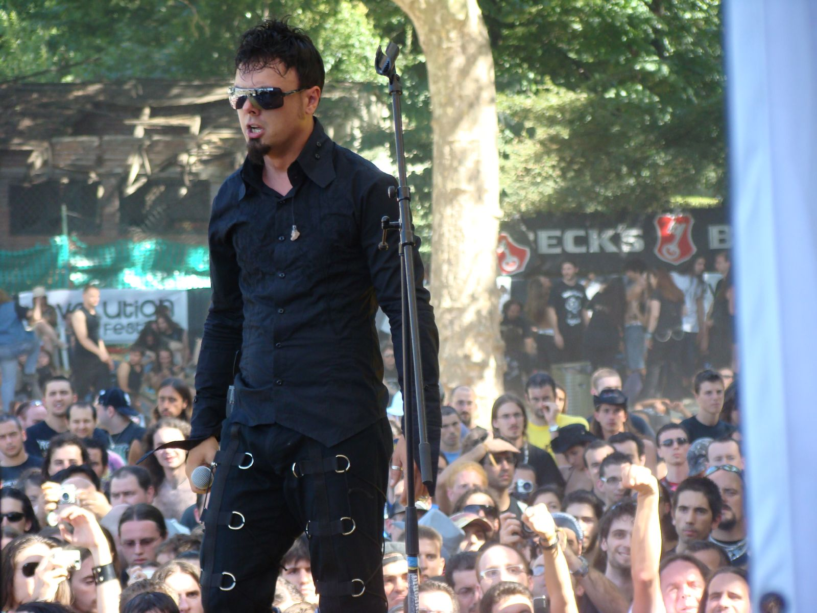 Roy Khan from Kamelot